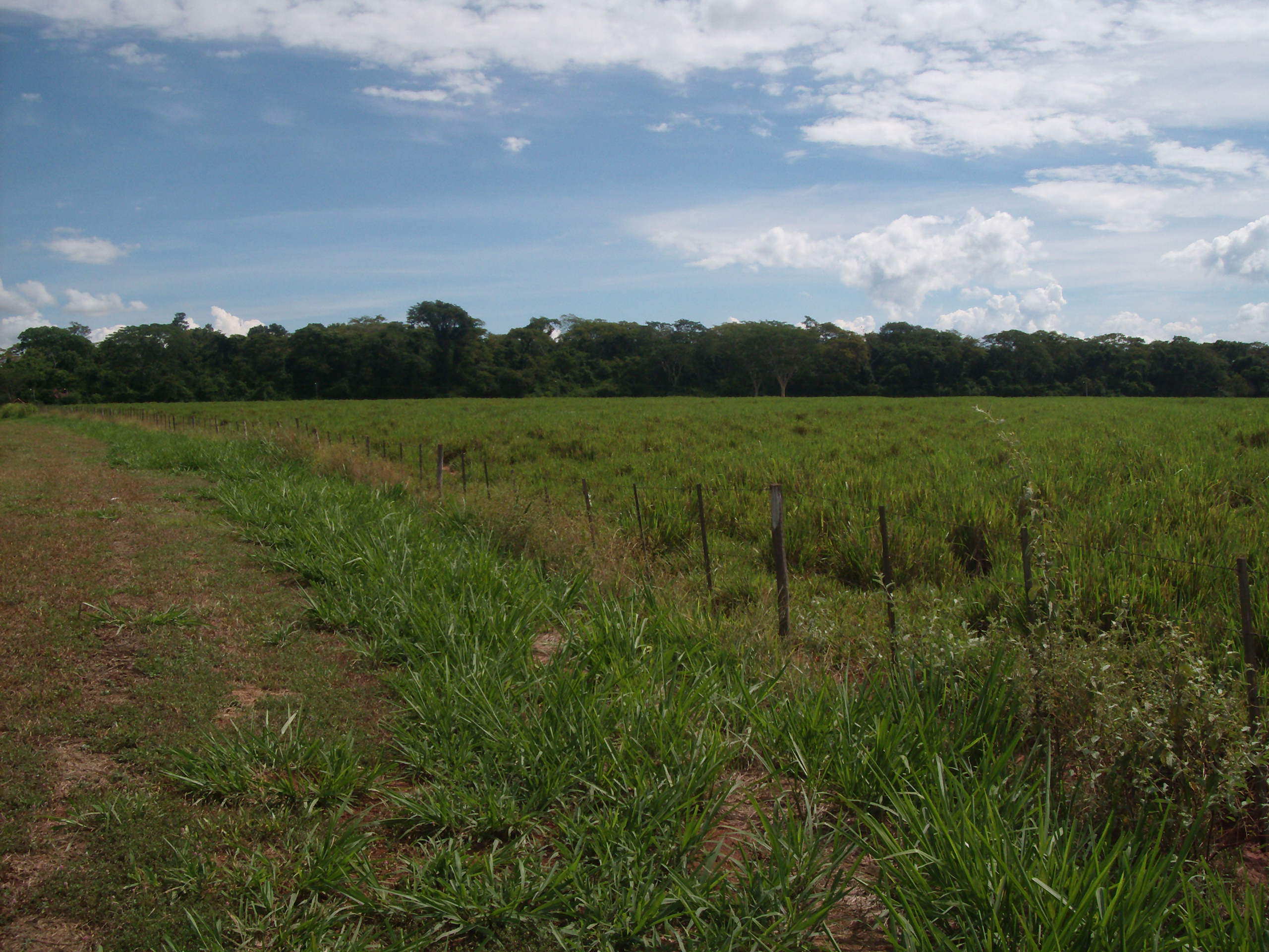 Forest remaining in Santa Fé do Sul